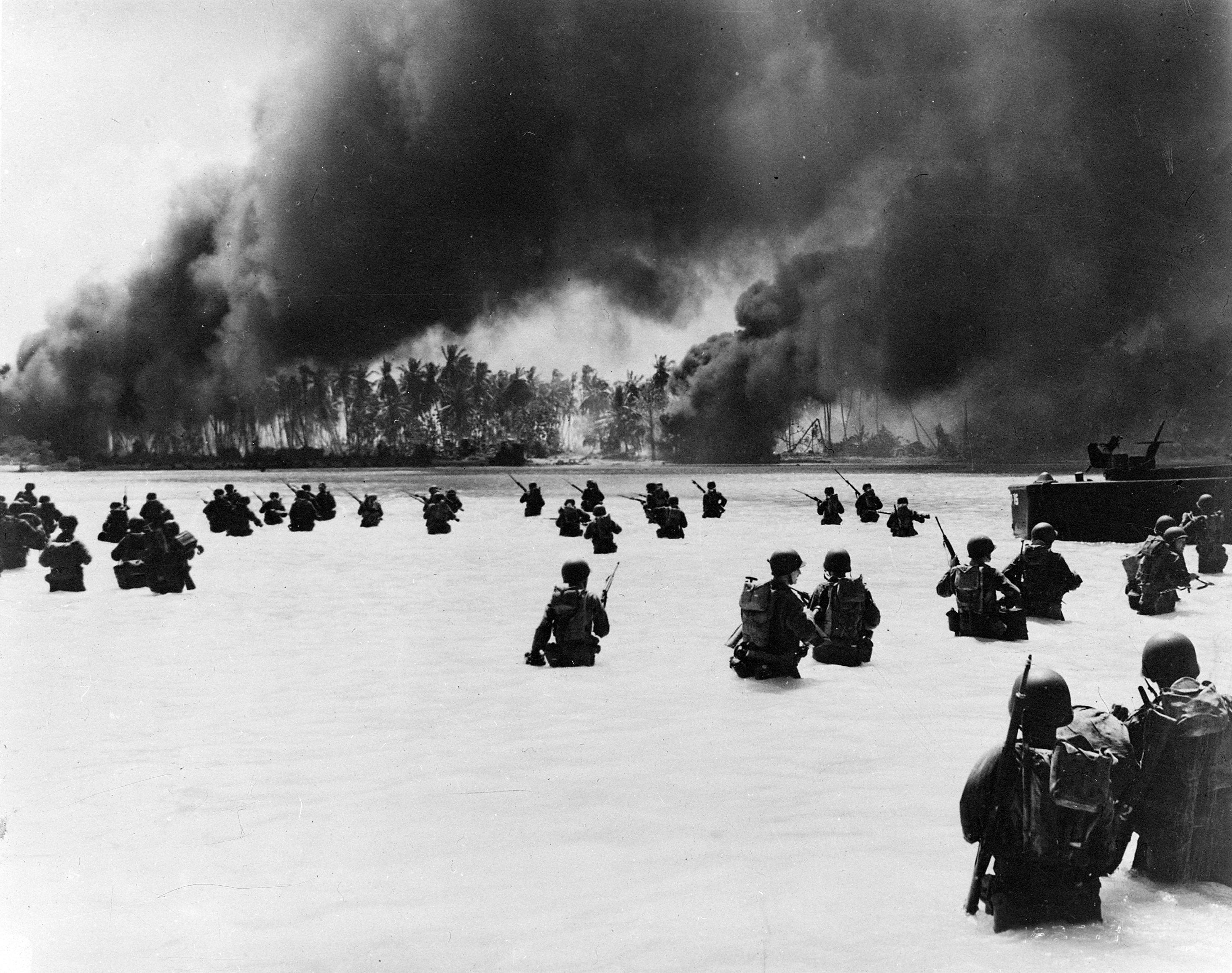 General notes: Use War and Conflict Number 1167 when ordering a reproduction or requesting information about this image.